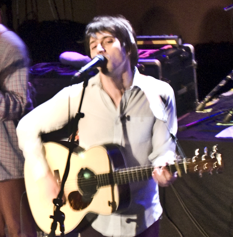 Conor Oberst